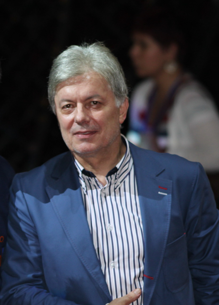 Valentin Mihov (Bulgarian: Валентин Михов) (born on January 18, 1954 in Sofia) is a Bulgarian football administrator. He is a former president of the Bulgarian Football Union (BFU) and the Bulgarian Professional Football League (PFL)